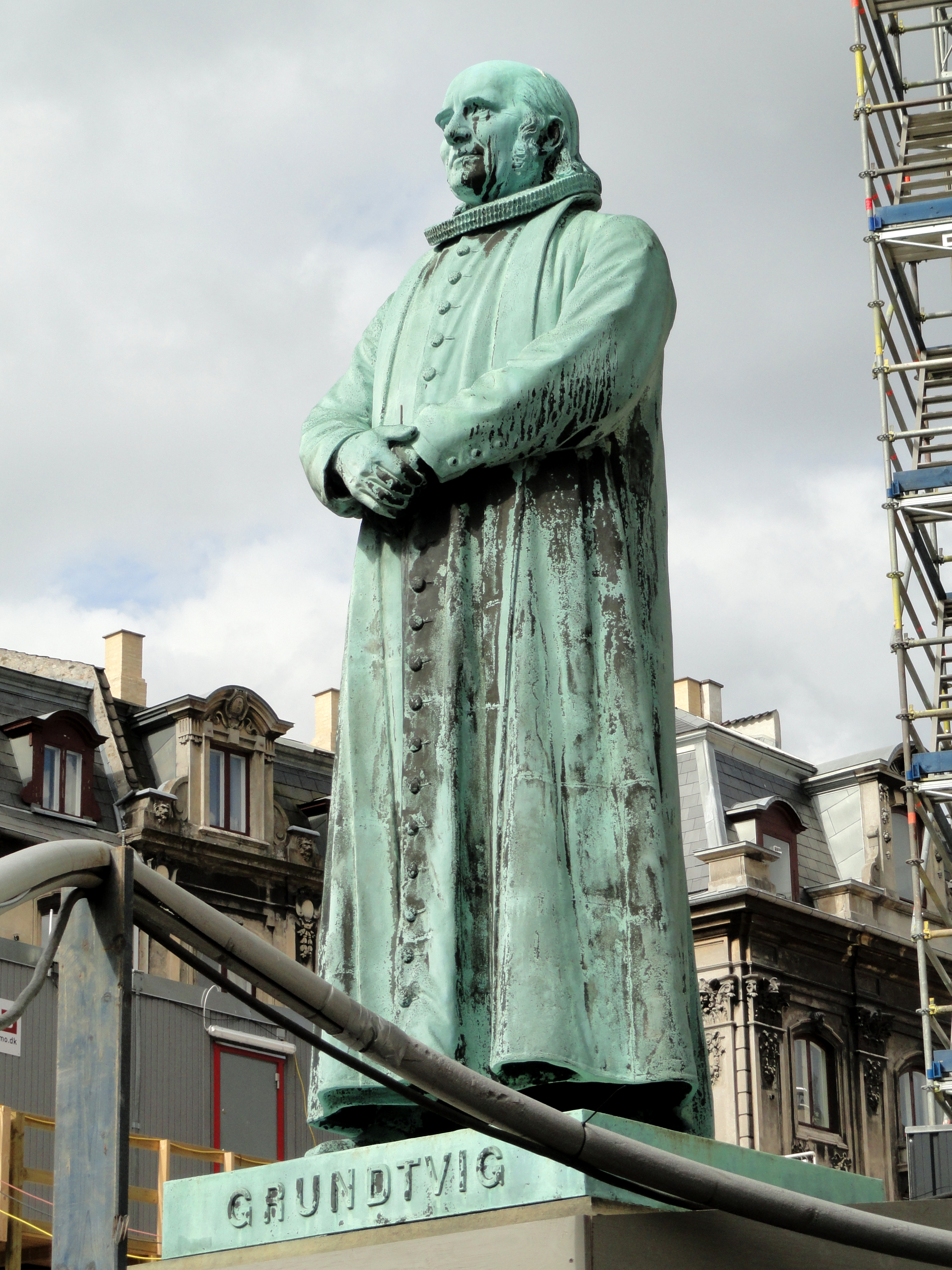 Statue of N. F. S. Grundtvig by Vilhelm Bissen (5 August 1836 – 20 April 1913), outside the Marmorkirken, Copenhagen, Denmark. The statue was dedicated in 1894; it is now in the public domain because the sculptor died more than 70 years ago.